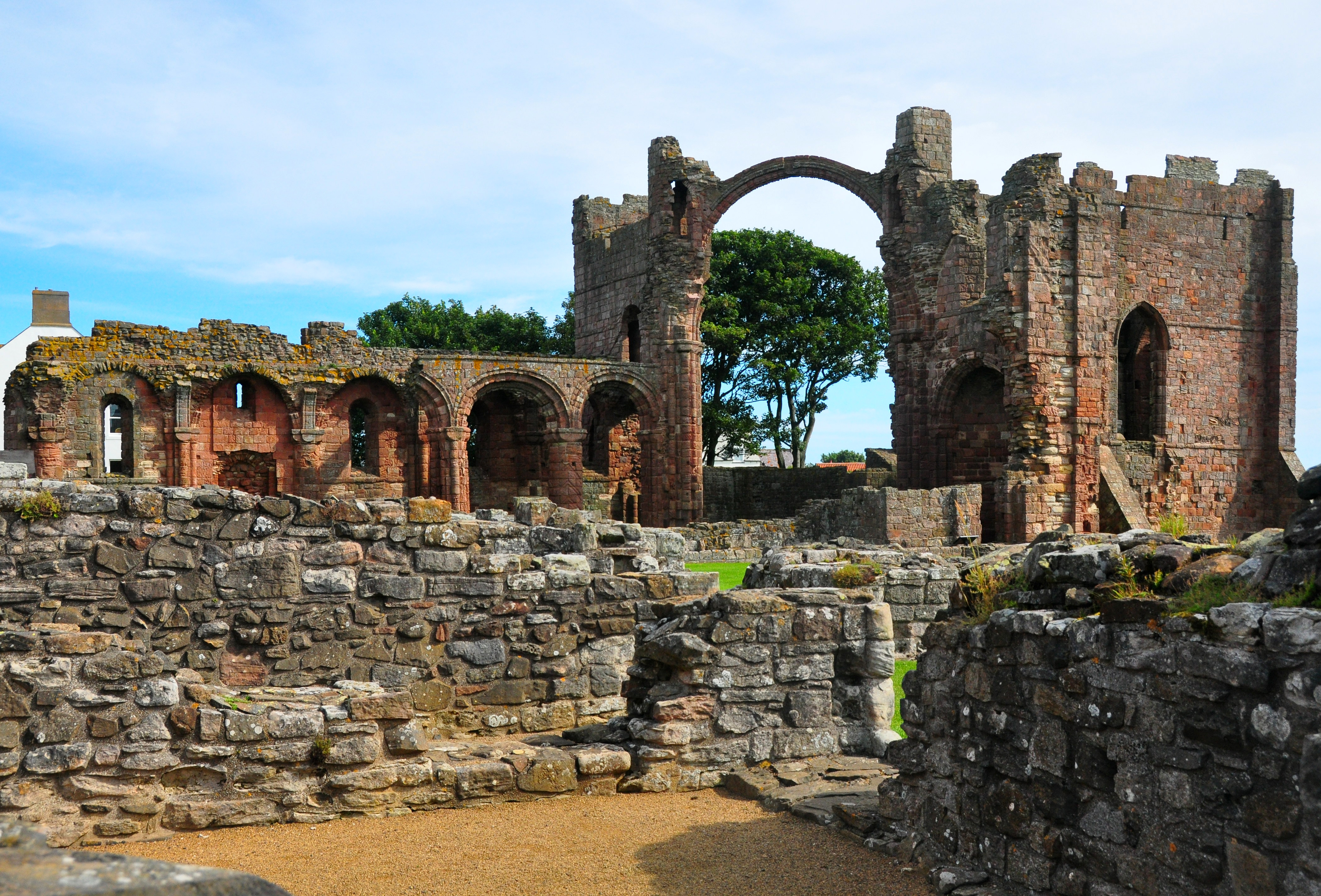 The east end of Lindisfarne Priory Church, Northumberland. The rainbow arch is visible, with the remains of the presbytery behind it.